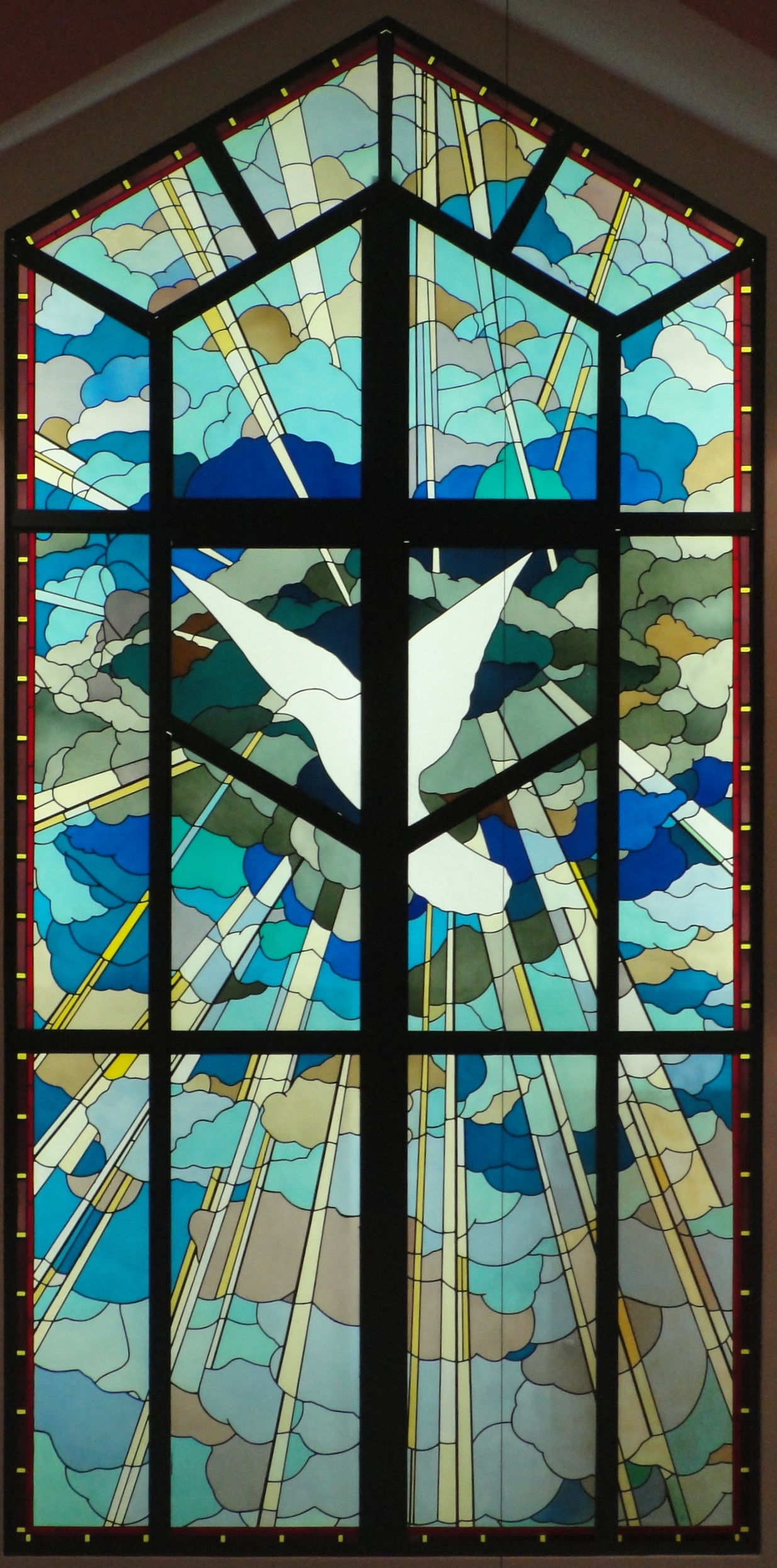 Close up off Stained Glass Window